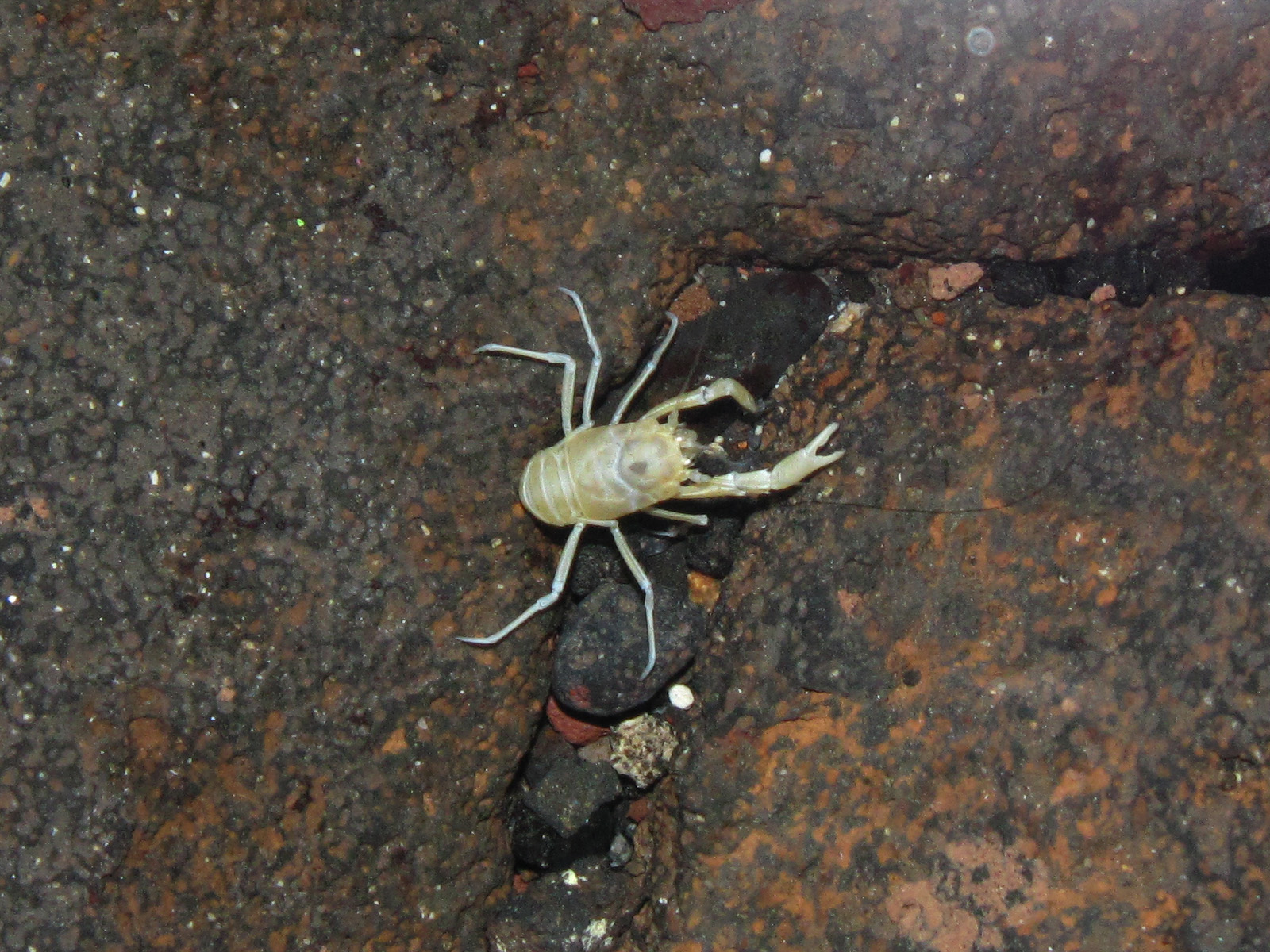 Munidopsis polymorpha (Blind albino crab) from Jameos Del Agua, Lanzarote, Canary Islands